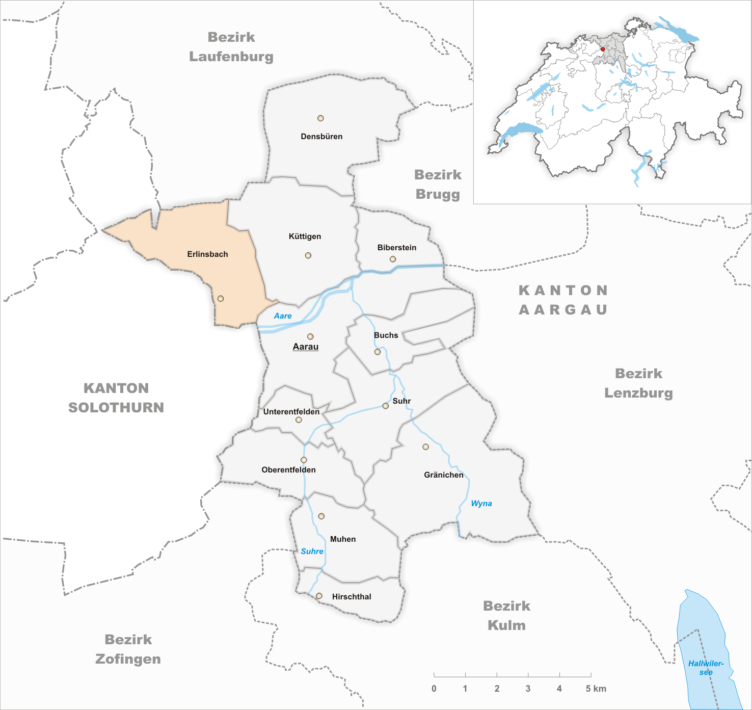 Municipality Erlinsbach